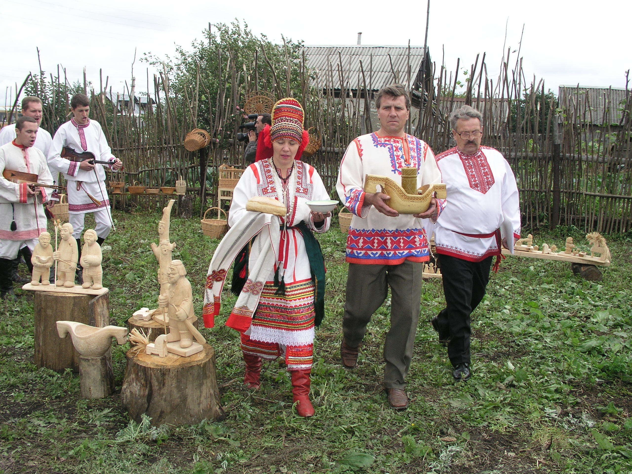 The opening ceremony. MUK «Ethnographic Museum «Ethno-kudo» named after V. Romashkin». Podlesnaya Tavla, Kochkurovsky district of Mordovia.